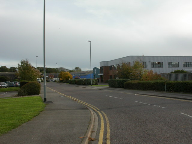 Airfield Way, Christchurch Typical strictly functional industrial estate, built on an airfield site sold off in 1962. Will future industrial archaeologists take delight in sites like this as we do with our Georgian/Victorian industrial heritage?